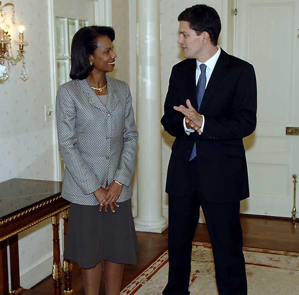 David Miliband and Condoleezza Rice.